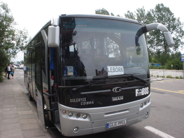 Güleryüz Cobra GL 9 bus in Łeba, Poland. Built 2007, Boguś Bus from Lębork operator.